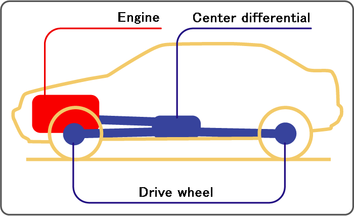 Sketch of 4WD(AWD)